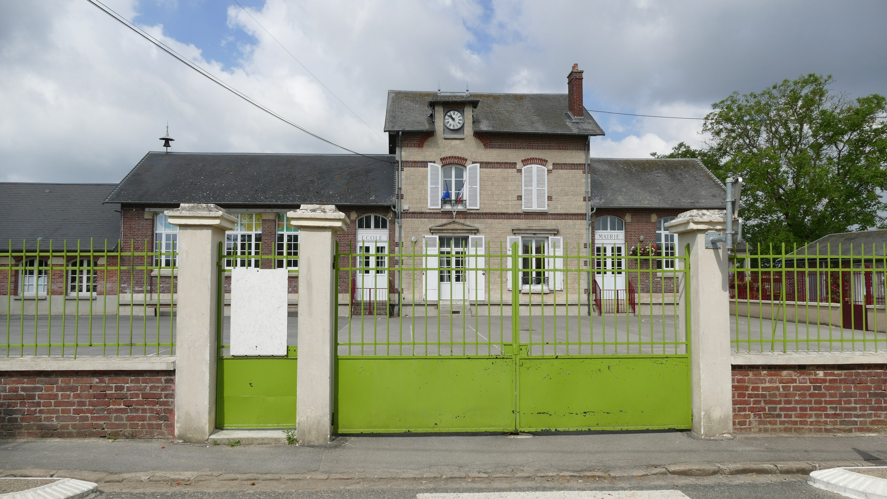 The city hall/school in Boissy-Fresnoy (Oise, Picardie, France).